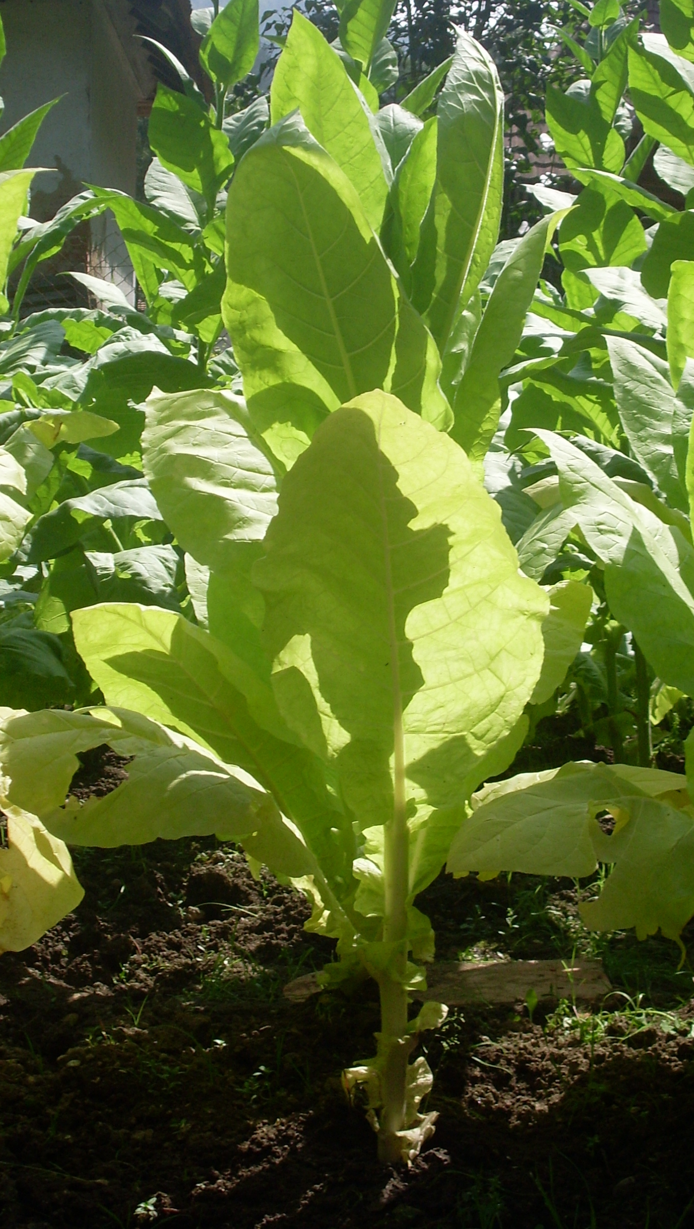 A tobacco plant of the sort Burley Jupiter